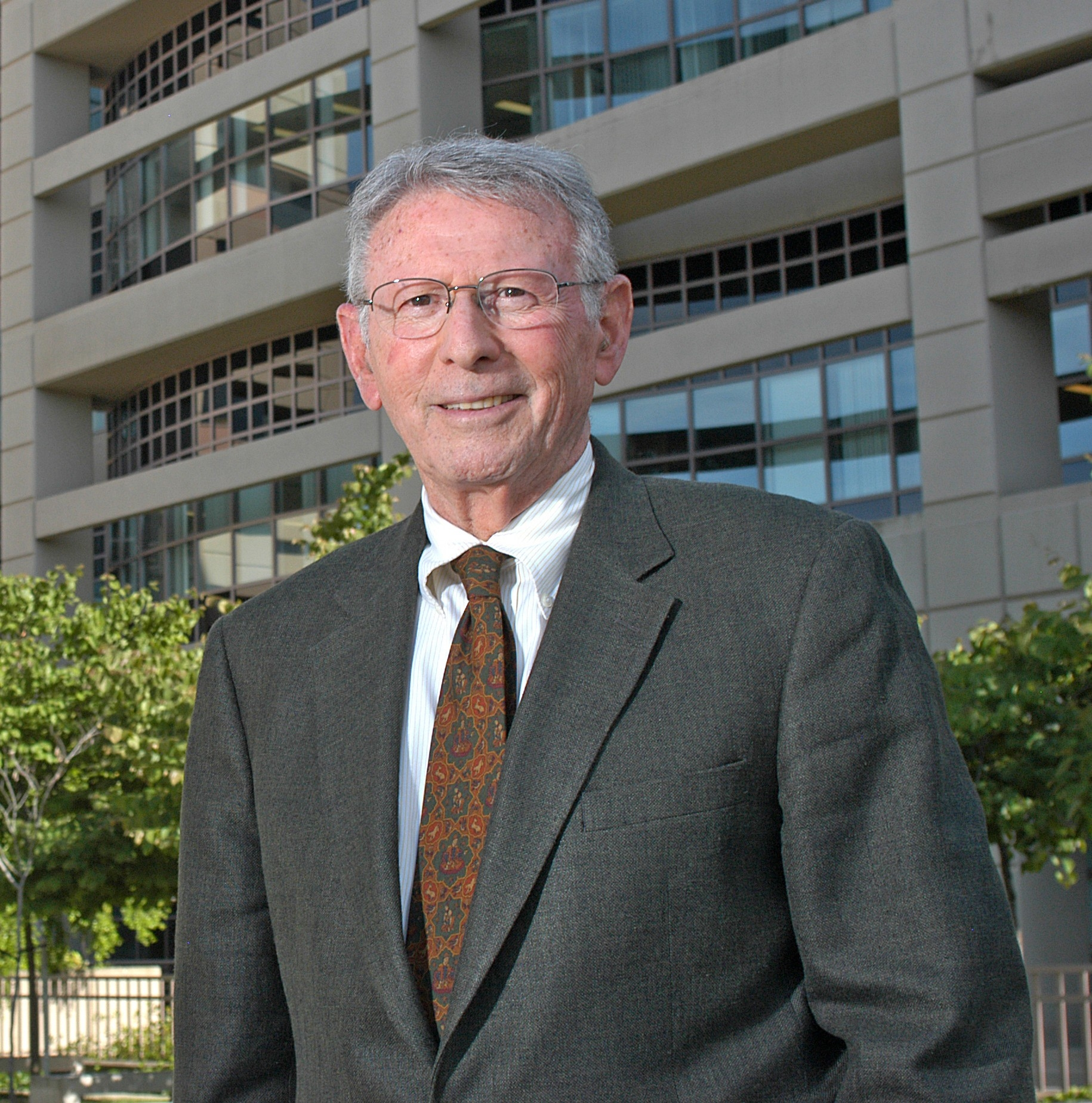 Photograph of Paul Berg, chemist and co-recipient of the AIC Gold Medal, 2008, awarded at Heritage Day, Chemical Heritage Foundation, Philadelphia, PA, USA.